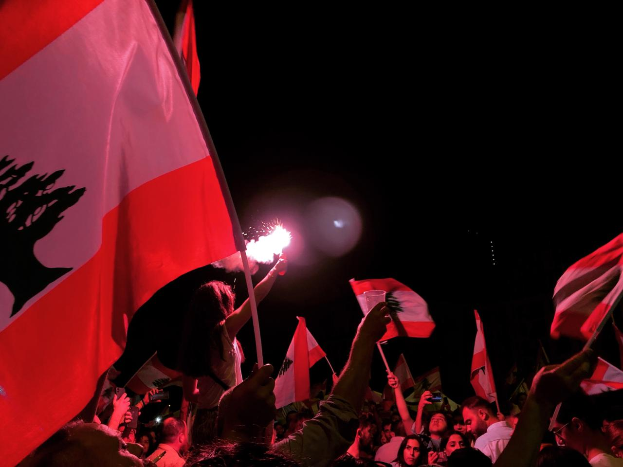 Beirut, Photographed by Jessica Wahab